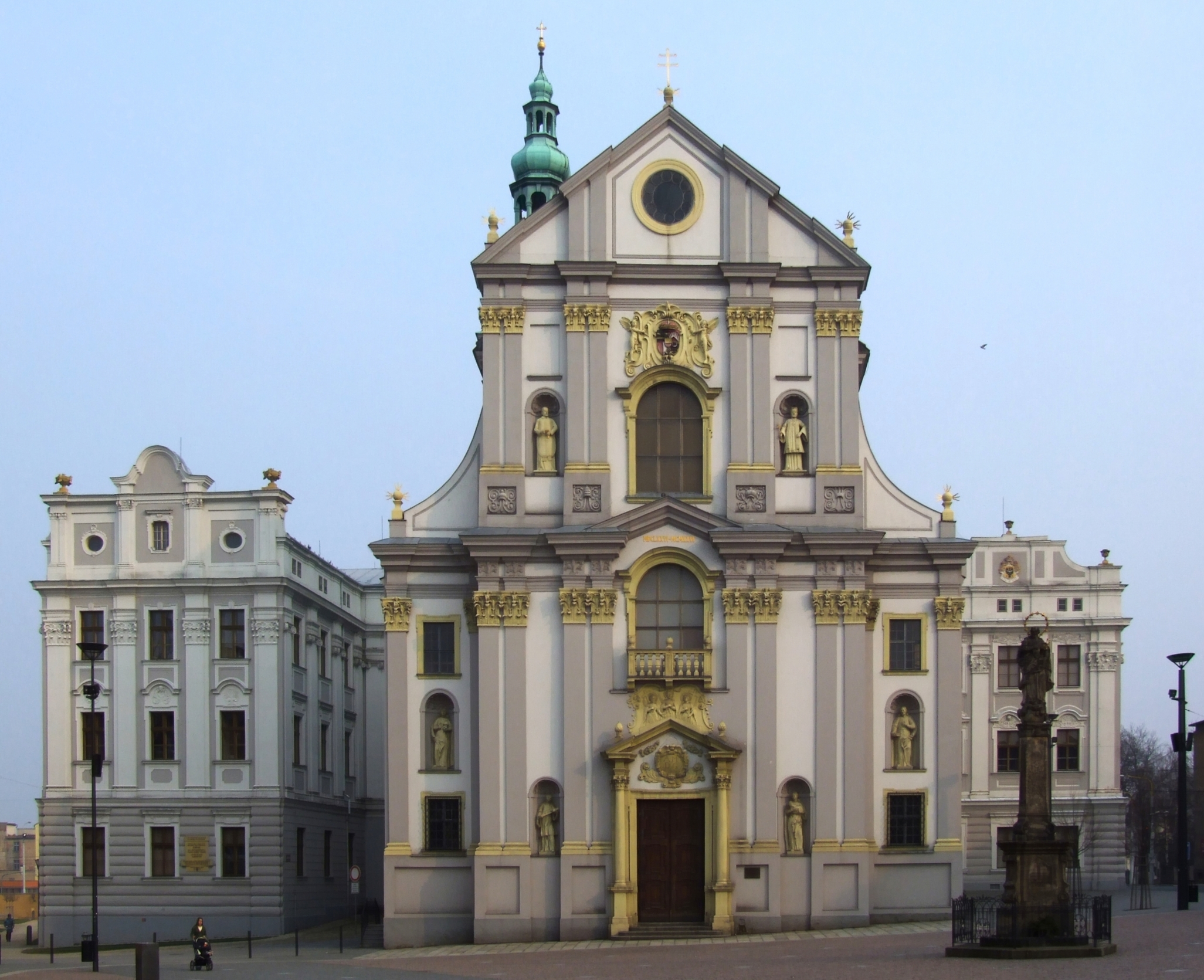 Opava (Troppau), Czech Silesia. Church of St. Adalbert